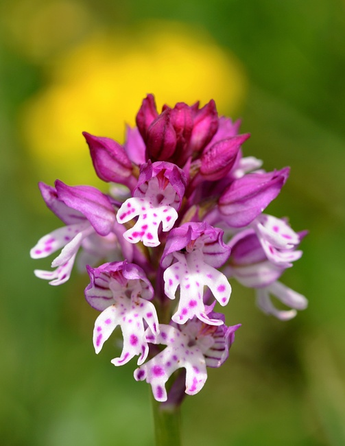 Neotinea tridentata × Neotinea ustulata (= Neotinea × dietrichiana), Dolomites / Italy